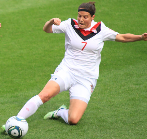 Rhian Wilkinson playing for Canada in the 2011 FIFA Women's World Cup